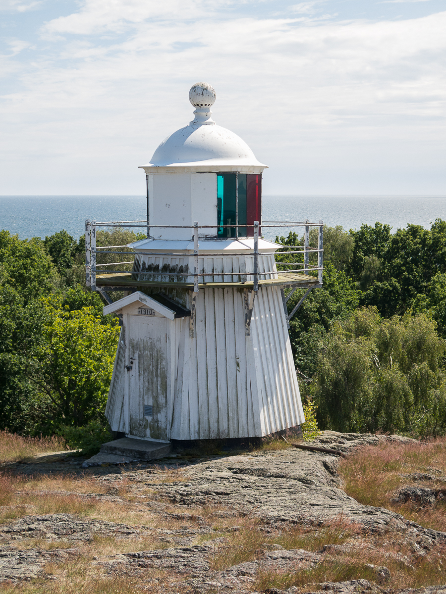 The Tärnö (southern) lighthouse